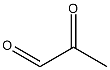 Structure of methylglyoxal